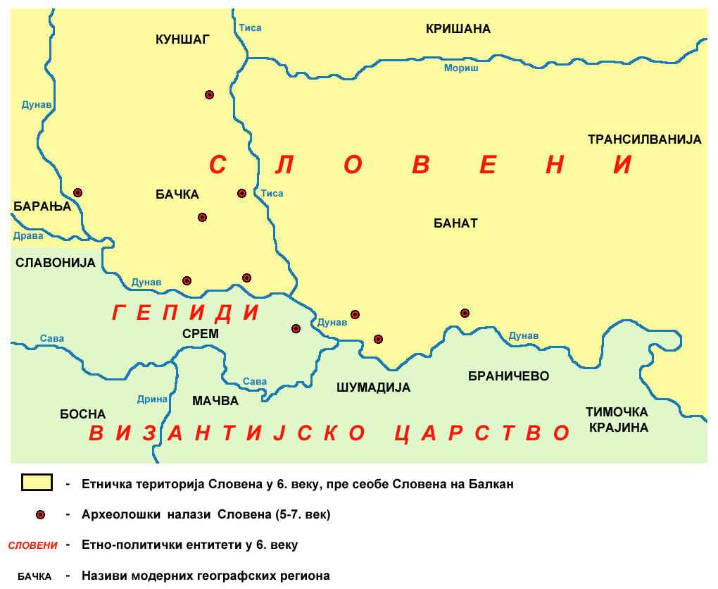 historical map of old Slavs in Vojvodina (Banat, Bačka and Syrmia) in the 6th century, before Slavic migration to the Balkans - Serbian language version.